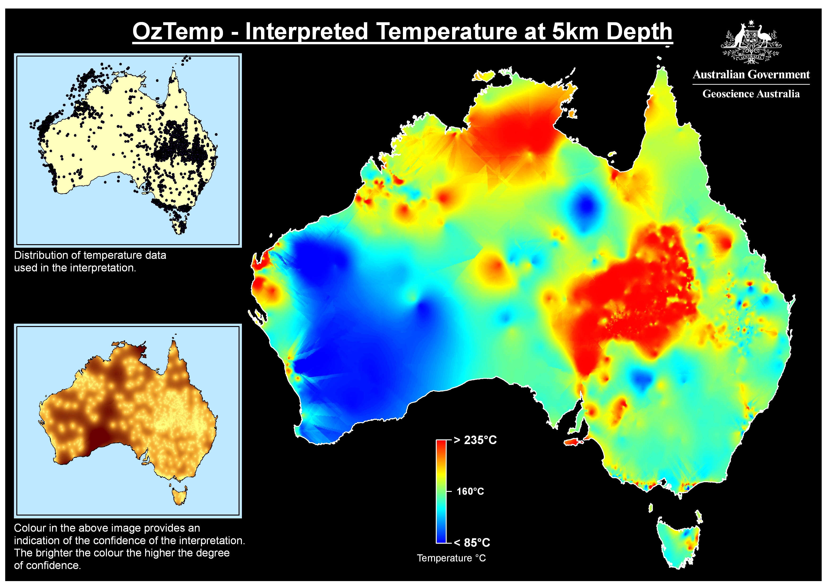 Dataset authors: Gerner, E.J.; Holgate, F.L. The accompanying image is an interpretation of the crustal temperature at 5km depth. It has been constructed using bottom-hole temperatures contained in the OzTemp well temperature database (an extract of which is available in a separate download). This image has been constructed as a continental scale interpretation of the temperature field at 5km. It is intended to be used as an illustration of the variation of temperature within the Australian crust and as an indication of the geothermal potential of the country. It is not a detailed or absolute temperature model and it is not appropriate to apply it at anything less than the broadest region scale.